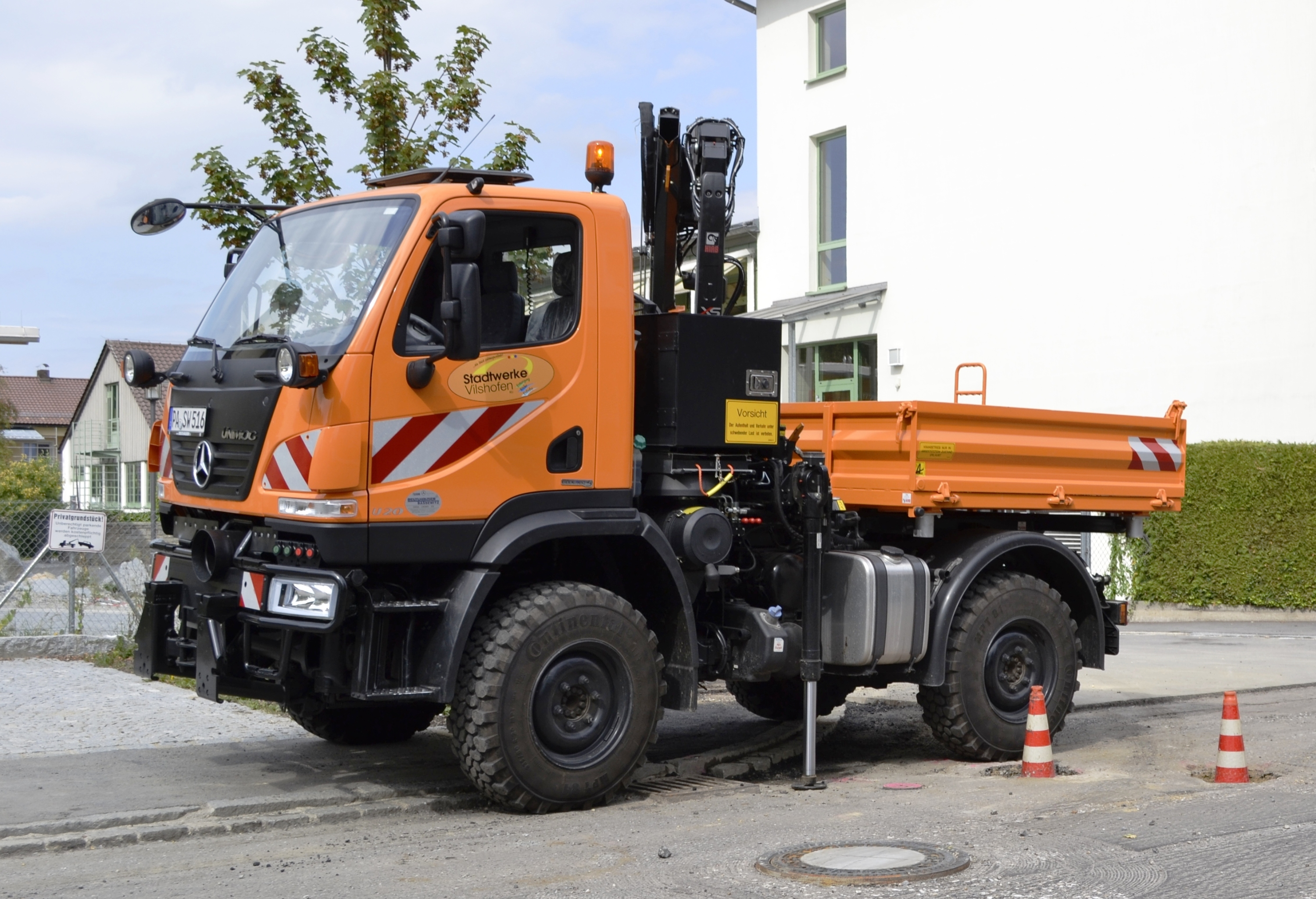 An Unimog U20 in Vilshofen an der Donau, Bavaria, Germany.